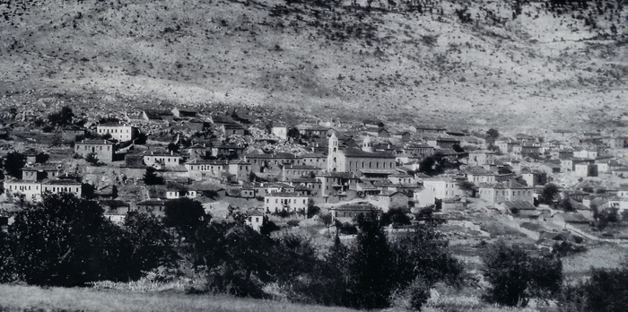 Village of Dumbeni or Dendrohori, Greece